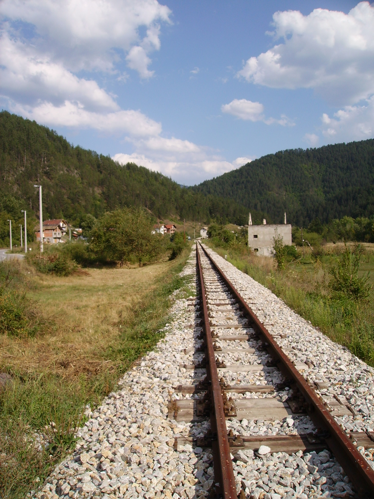 Part of the rebuilt railroad from Višegrad to Dobrun (Bosnia and Herzegovina).